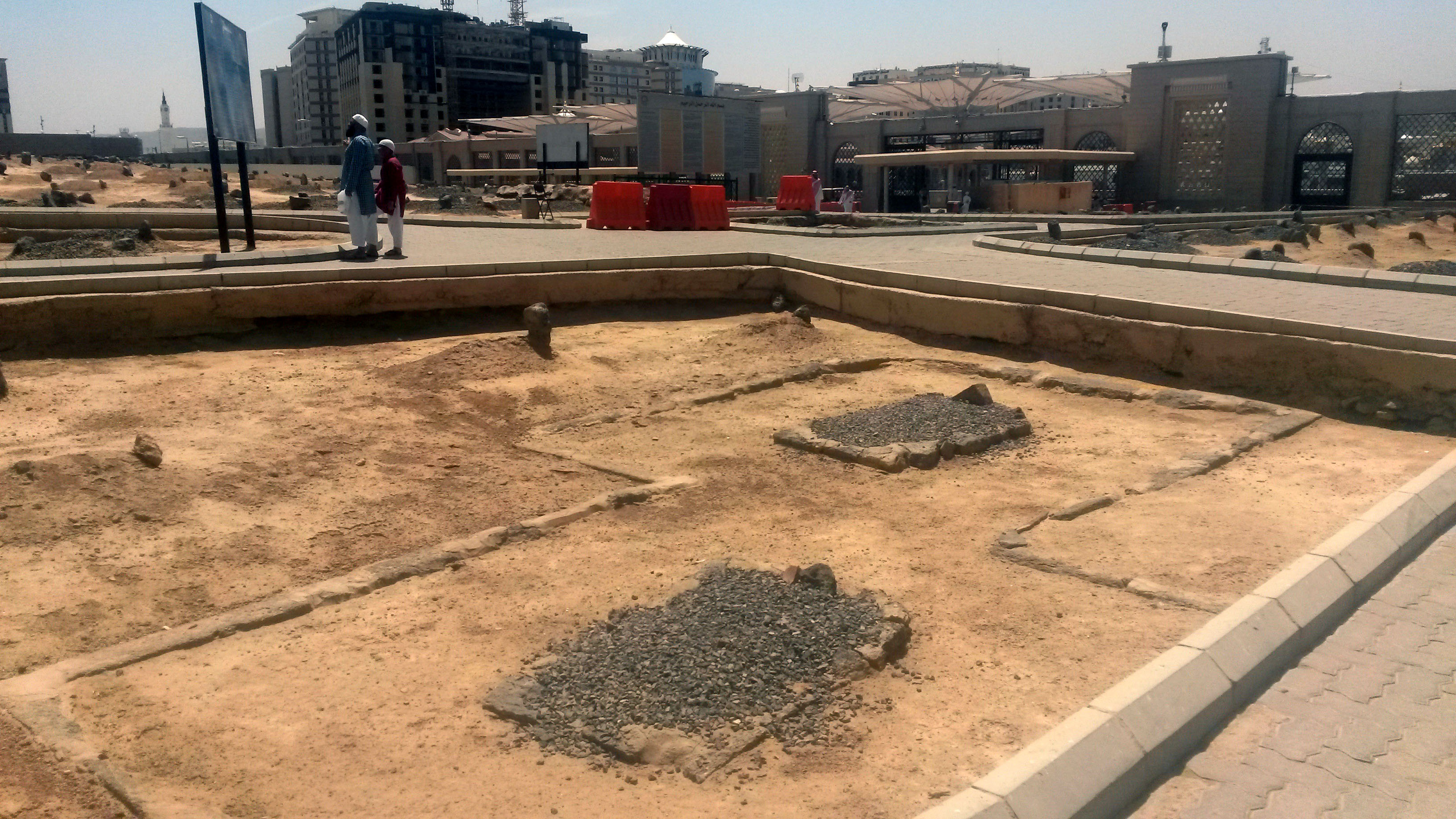 Aqeel ibn Abitaleb and Jafar Tayar tomb in Baqi